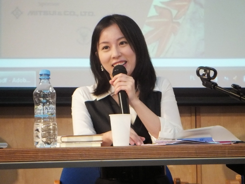 Akutagawa Prize-winning author Risa Wataya (綿矢りさ) speaking at the Embassy of Japan in Poland in October 2013